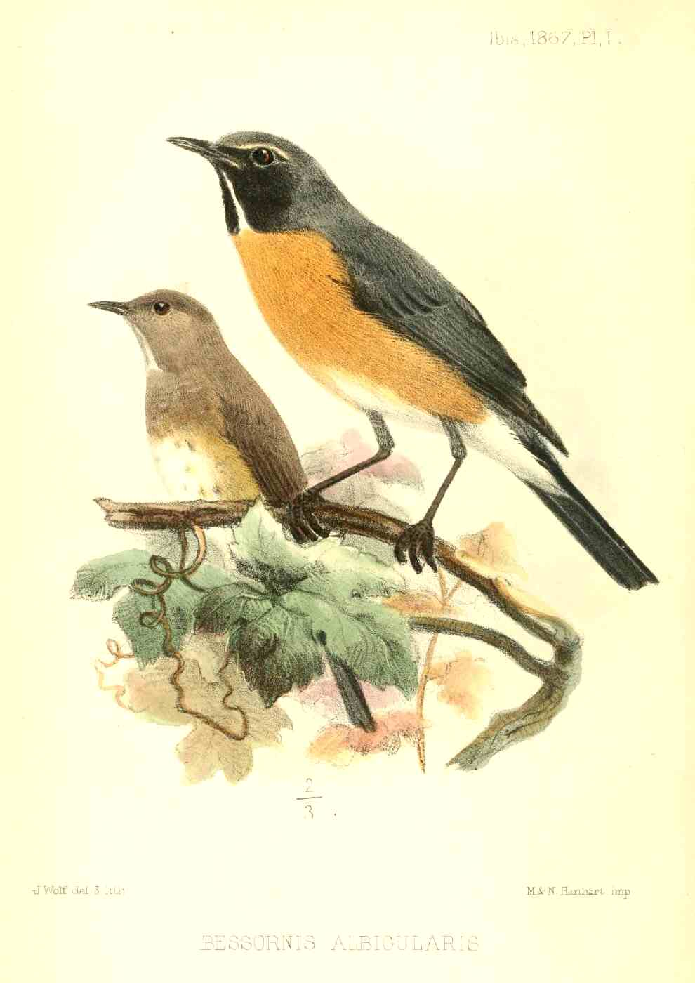 « Bessornis albigularis » = Irania gutturalis (White-throated Robin)